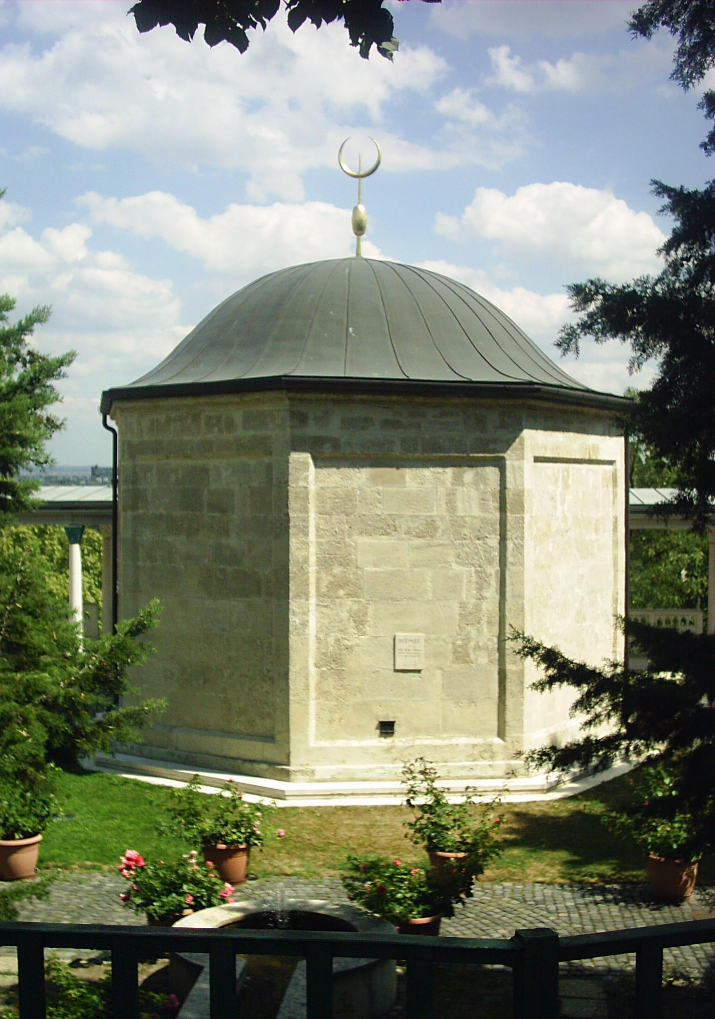 You can find this turbe in Budapest on Rose Hill. This building is one of Hungary's best known Turkish-Ottoman monuments. Have been built by Gül Baba from 1543 to 1548. It was seriously damaged in the 16th century, then, in the baroque age catholic chapel had been made of it. In 1885 the Turkish Government had it restored. This view of the turbe was converted in 1962. Several works of Islamic art can be visited: copies of Koran, prayer rugs, devotional objects. Even nowadays the turbe is one of Muslims' place of pilgrimage.